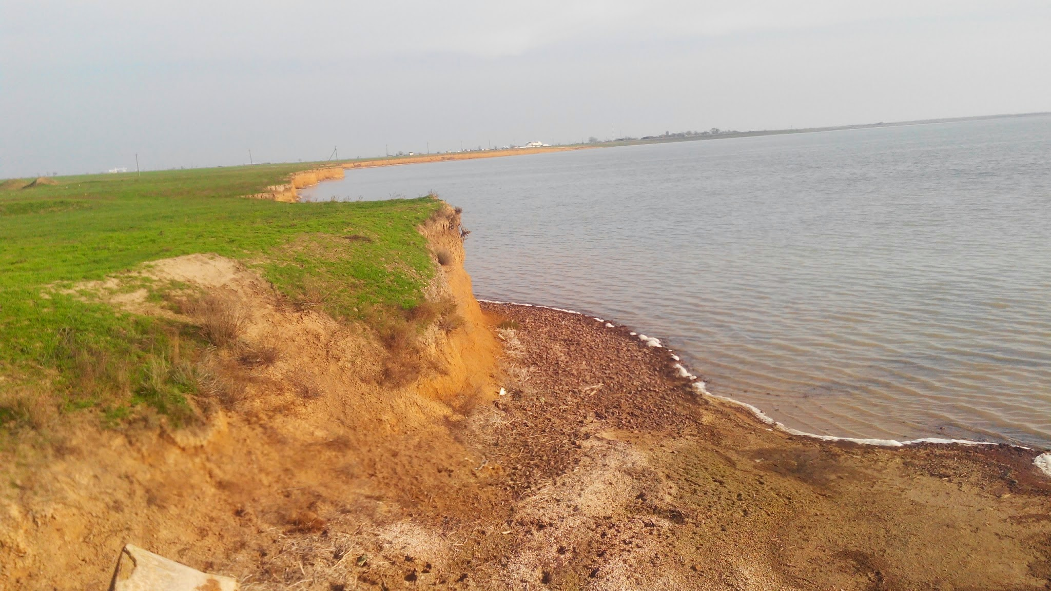 Syvash in Azovo-Syvaskyi National Park to the south of Chonhar, Kherson Oblast, Ukraine